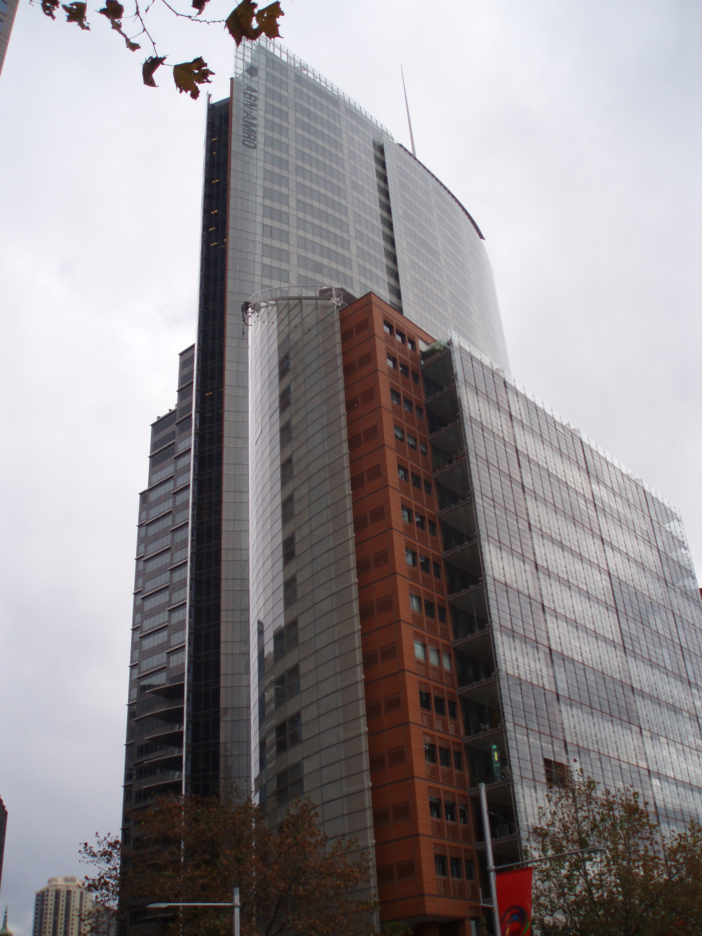 I took this photo on Sunday June 14 of the Aurora Place building in Sydney. Taken from Macquarie Street.